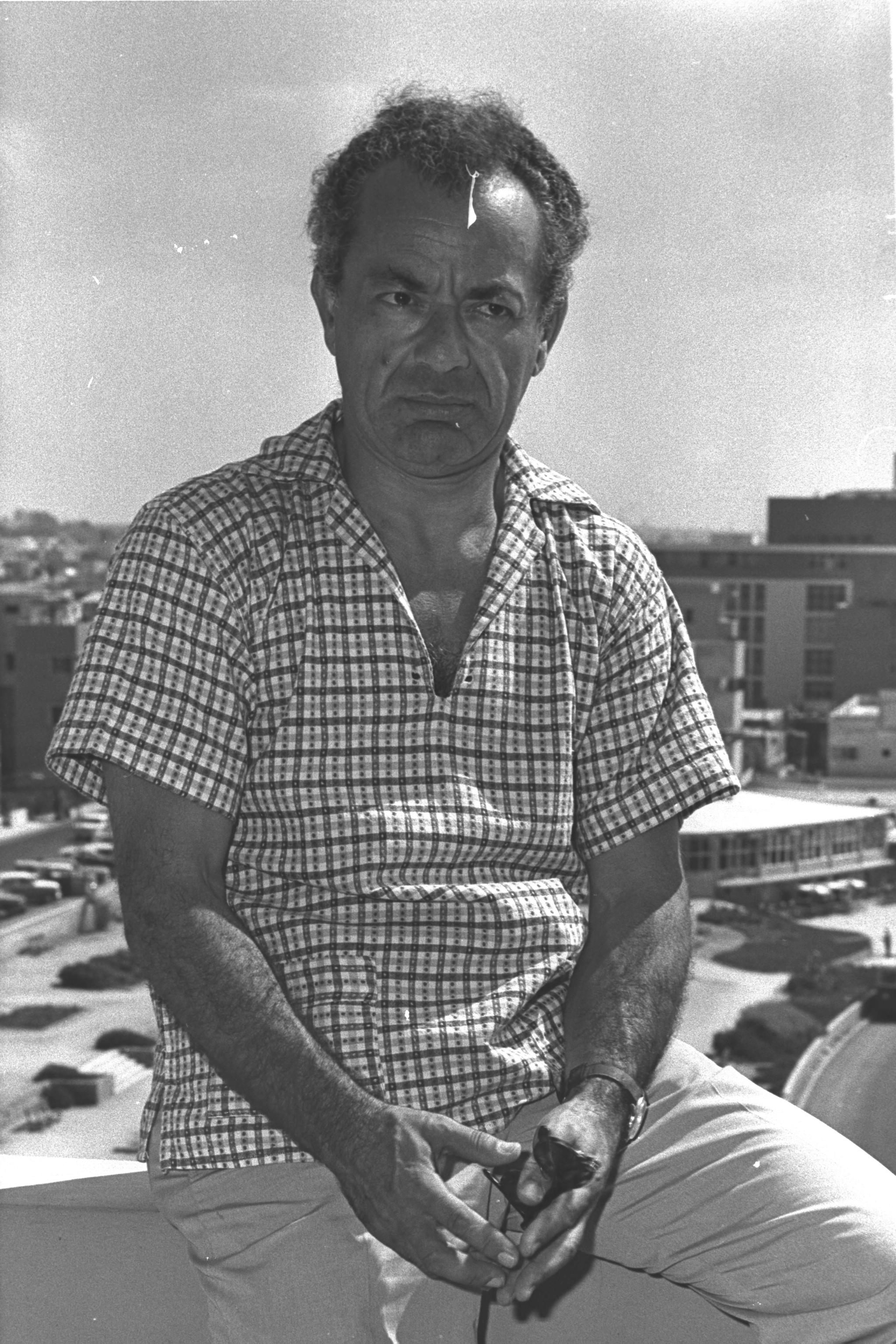 Alexander Schneider during a visit to Israel, 1961